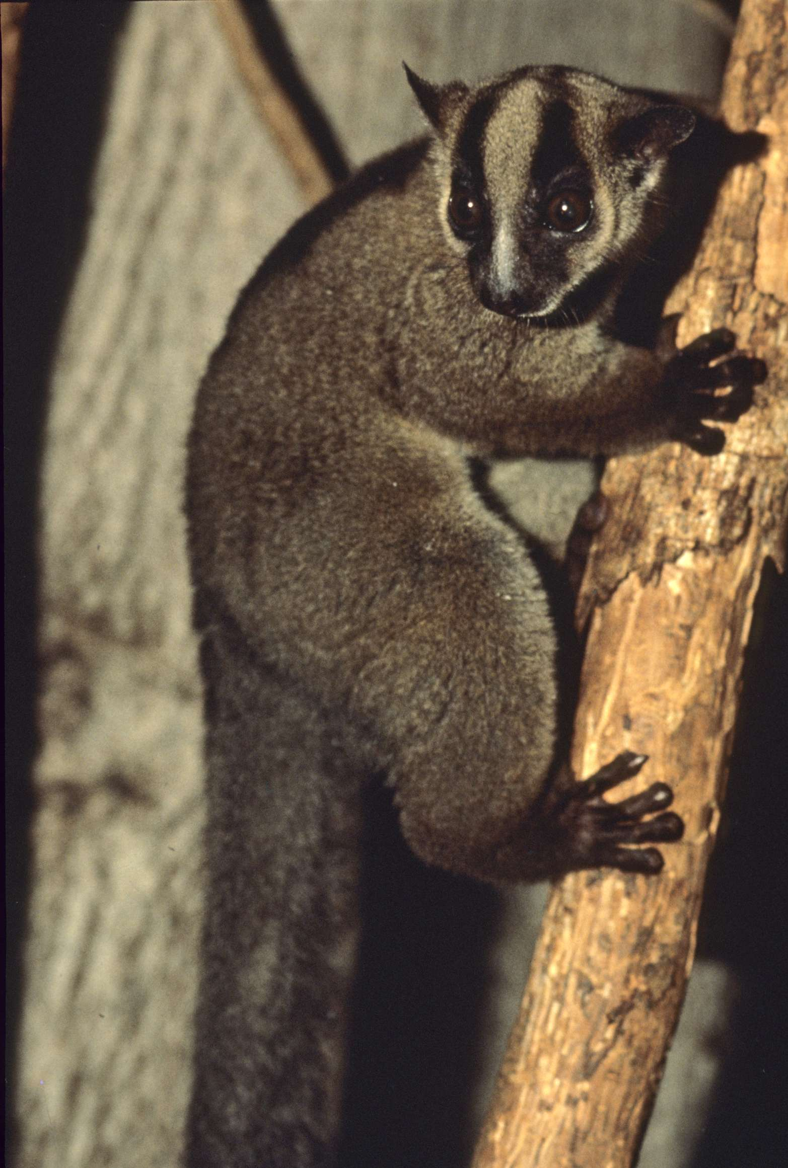 Pale fork-marked dwarf lemur (Phaner pallescens) in captivity at Analabe, 1985.